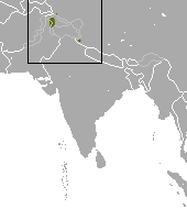 Kashmir Pygmy Shrew (Sorex planiceps) range